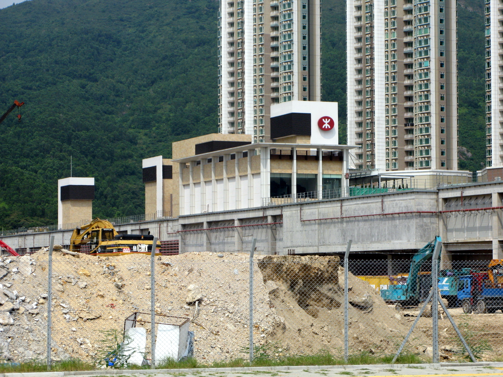 HK Lohas Park Station